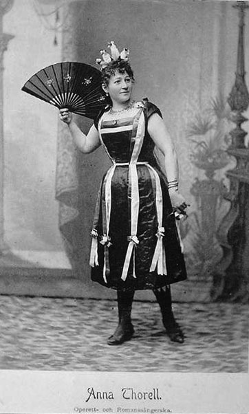 Anna Thorell